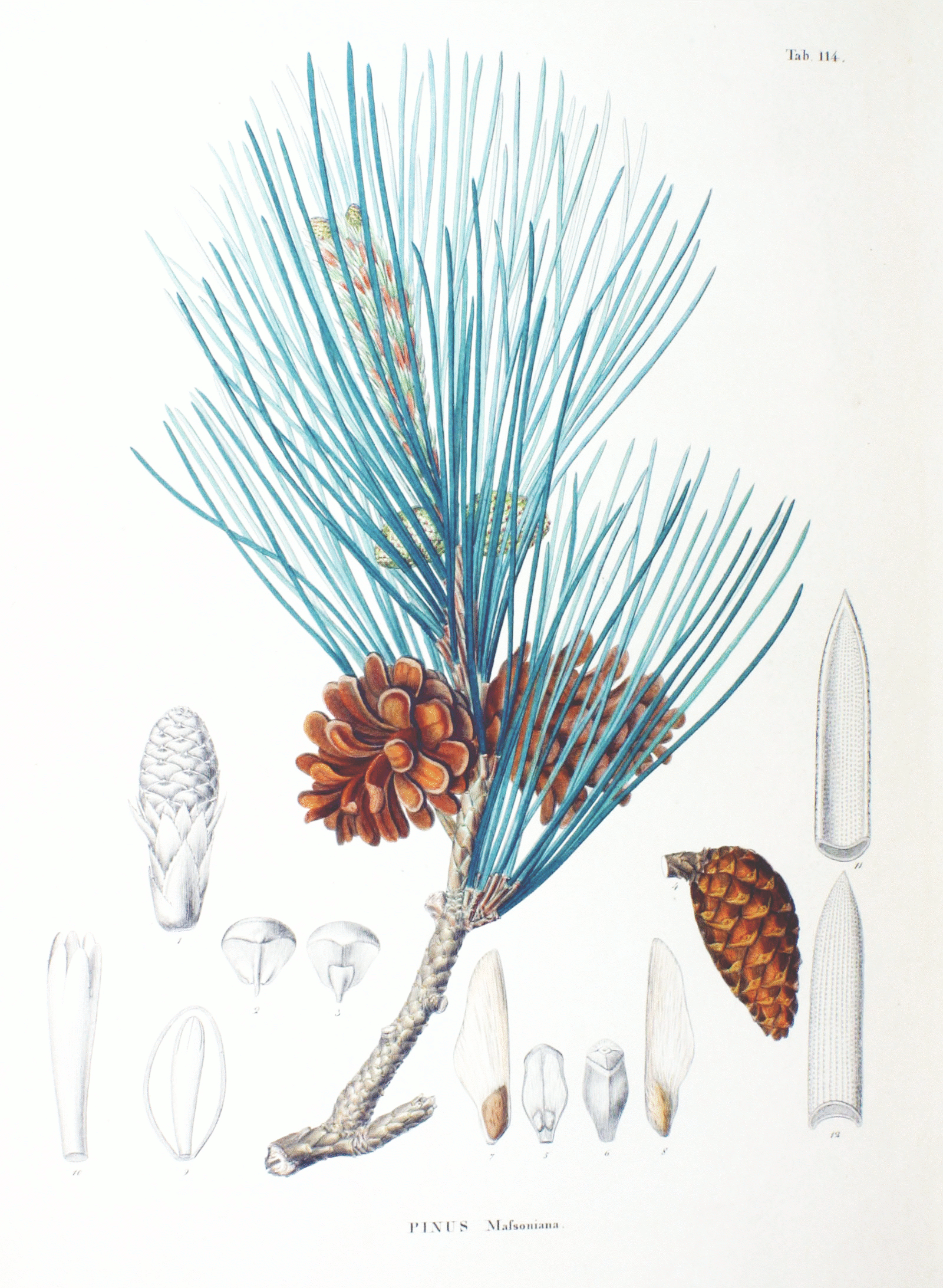 Pinus massoniana Siebold & Zucc., non Lamb., = Pinus thunbergii Parlatore. Plate from book